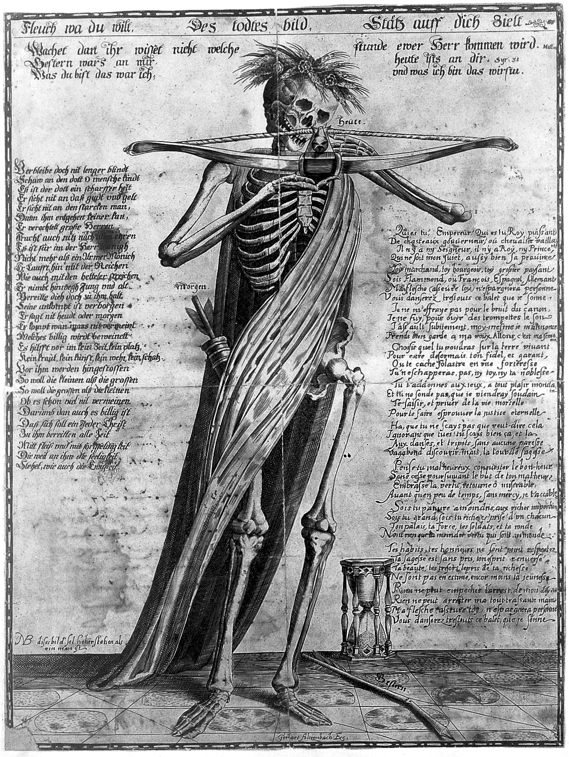 Allegory of death as crossbowman Iconographic Collections Keywords: Gerhard Altzenbach